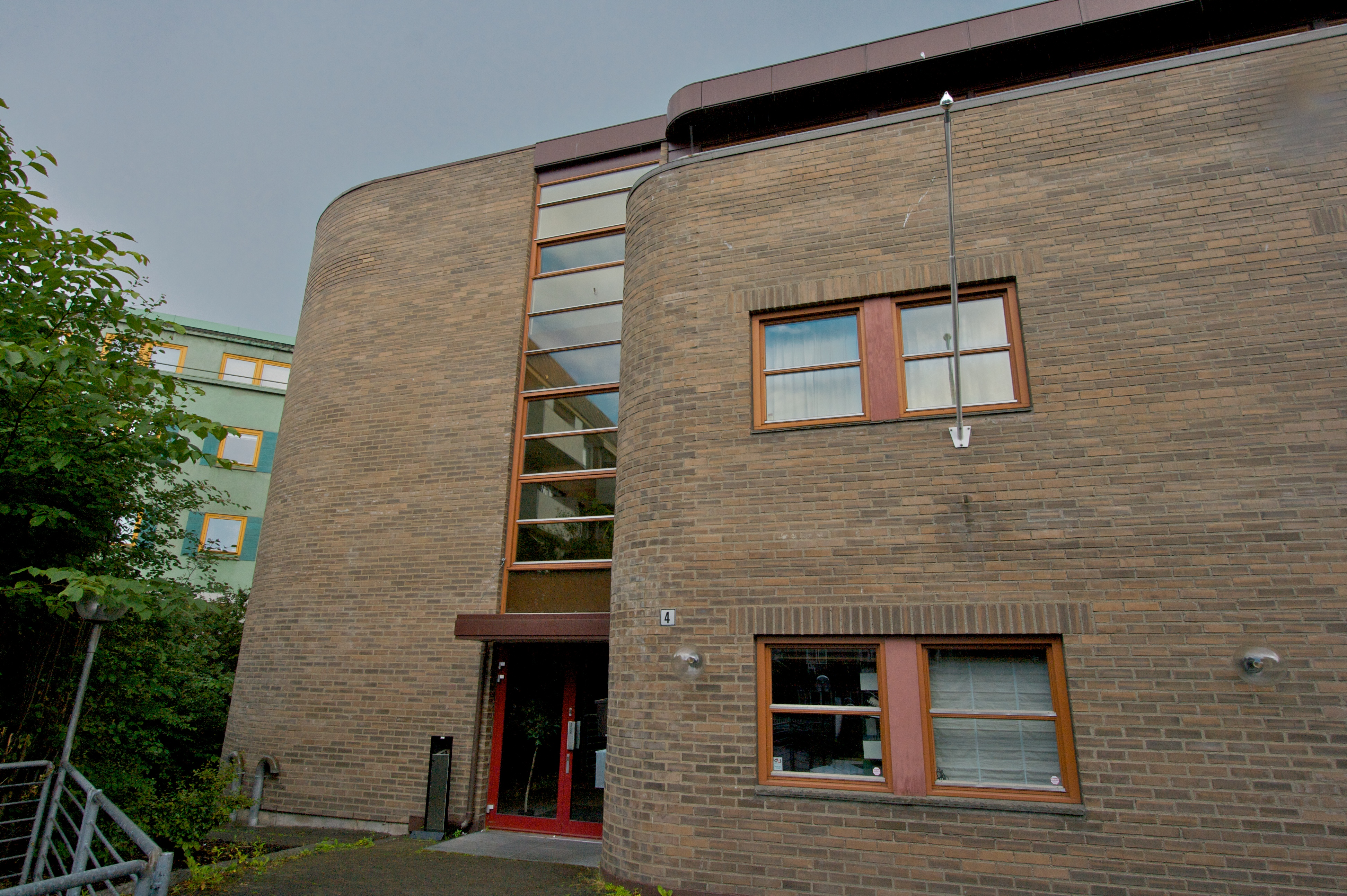 Embassy of Brazil, Oslo, Norway.